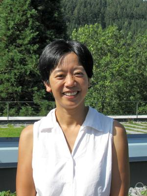 Picture of Megumi Harada